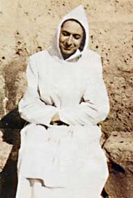 Saint Rafael Arnaiz Barón, Spanish trappist monk canonized in 2009.